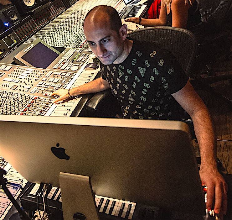 image